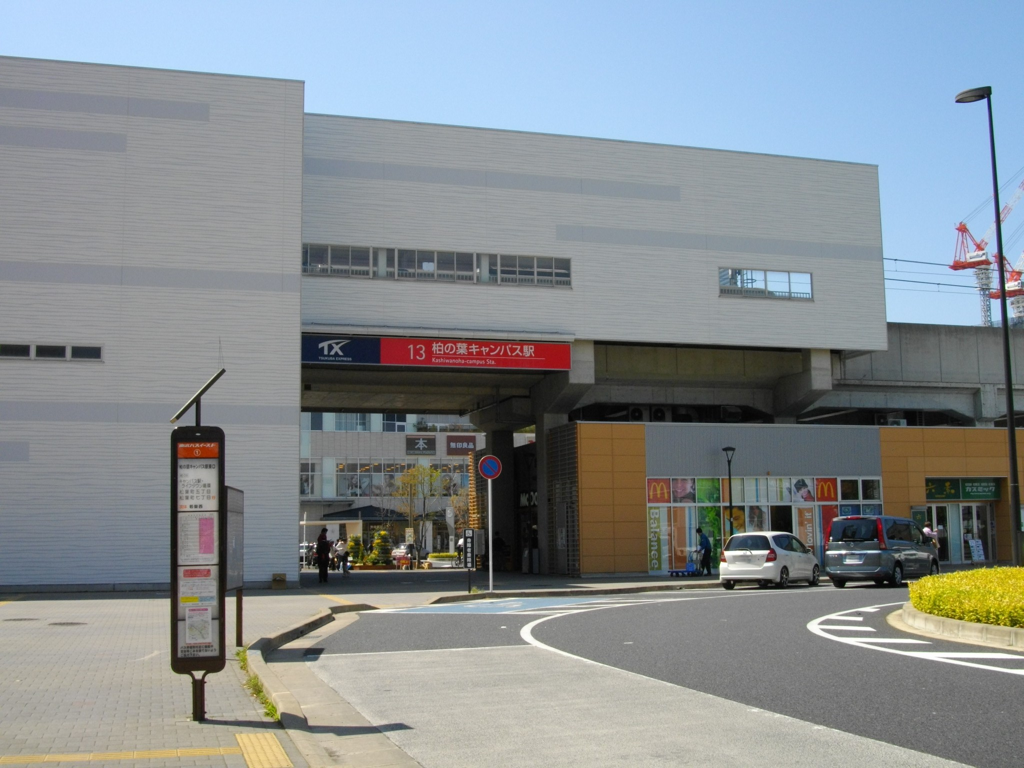 Kashiwanoha-campus Station